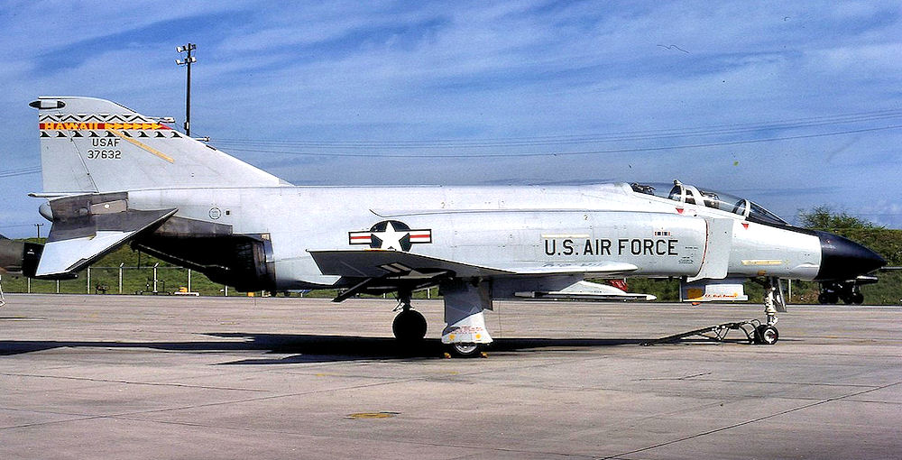 199th Tactical Fighter Squadron - McDonnell F-4C-20-MC Phantom 63-7632 in Air Defense interceptor markings. Aircraft was retired and scrapped, Sept 1, 1987